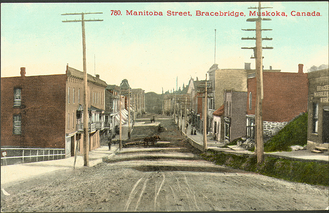 Postcard view of Manitoba Street in Bracebridge, Ontario circa 1910 before it was paved.